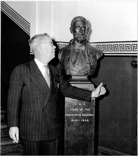 Bust of Lewis Adolphus Bernays CMG, Clerk of the Legislative Assembly 1859 to 1908, at the Opening of Queensland Parliament, 1953, sculpted by James Laurence Watts